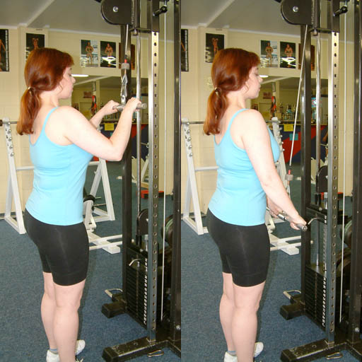 Thanks go to the model, Emily.